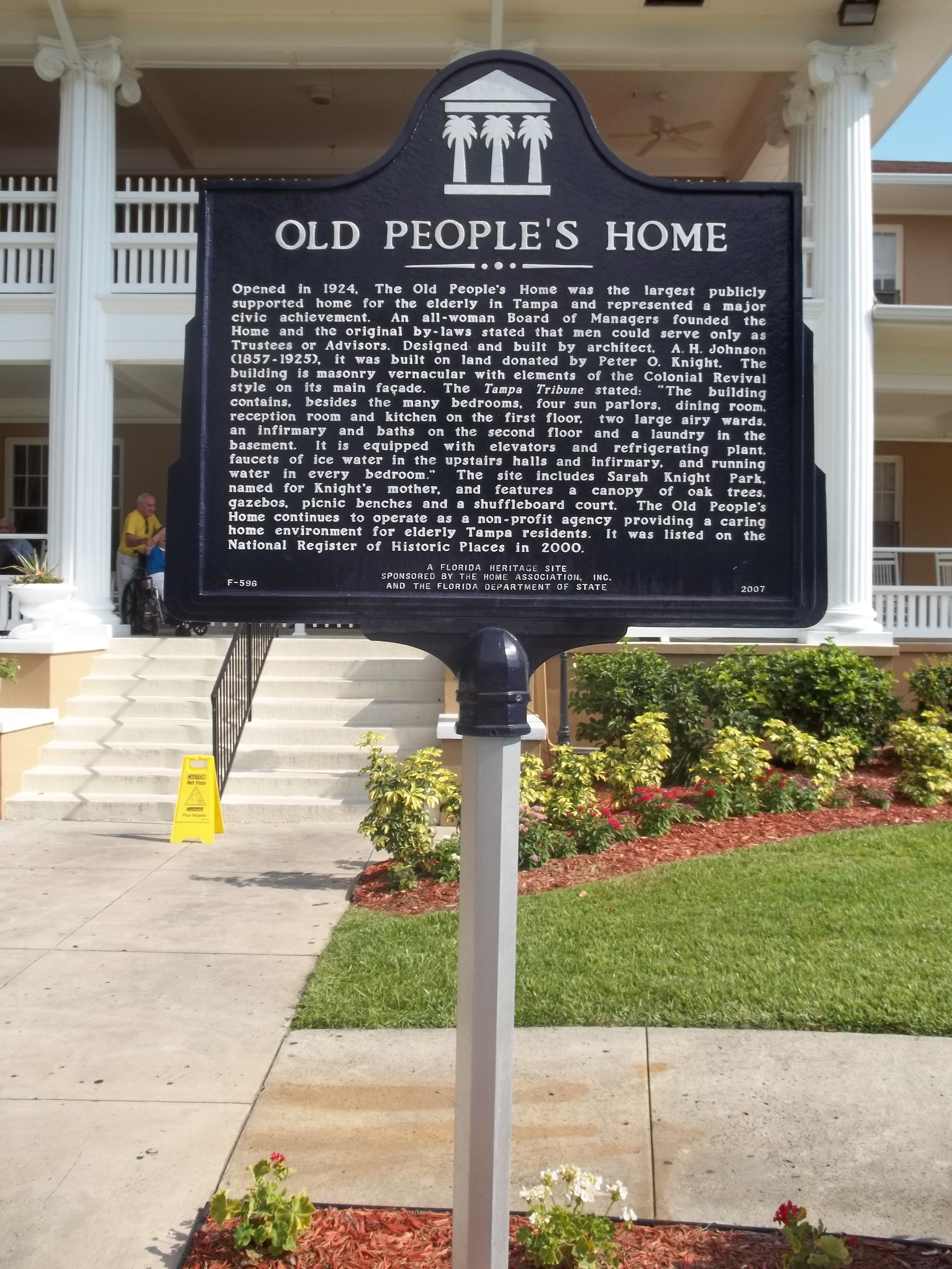 Tampa, Florida: Old People's Home